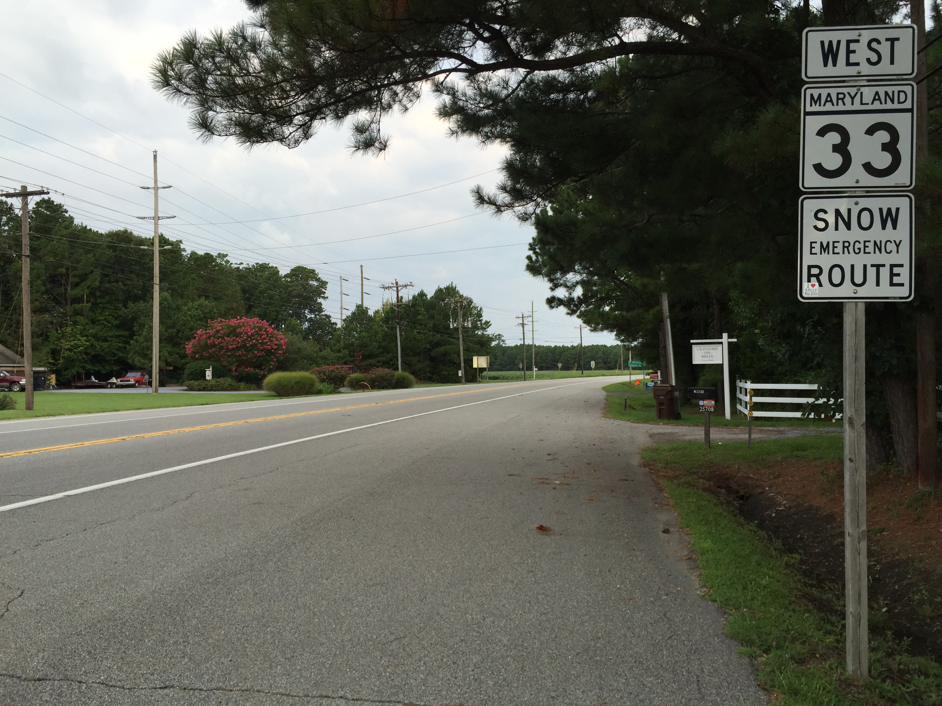 View west along Maryland State Route 33 (Saint Michaels Road) at Maryland State Route 329 (Royal Oak Road) in Newcomb, Talbot County, Maryland